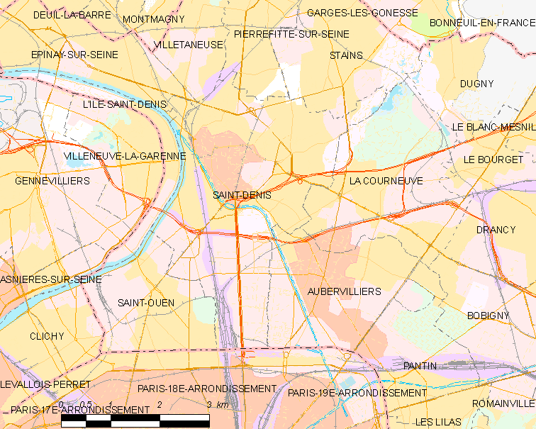 Map of French municipality Saint-Denis